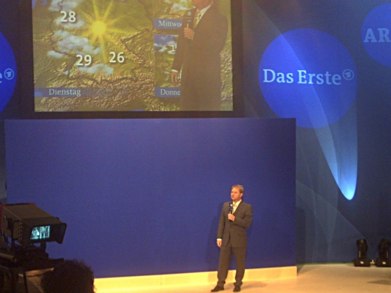 This picture shows a presentation how the weather is produced on TV. It shows the bluescreen technology.